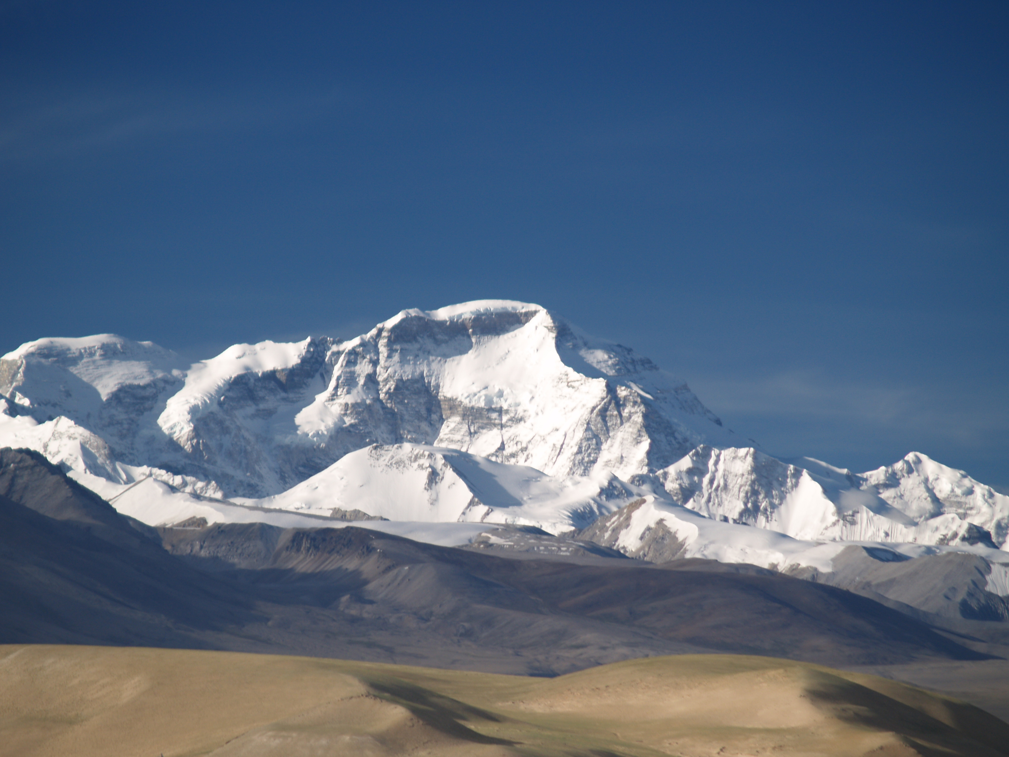 Cho Oyu - North face from Old Tingri